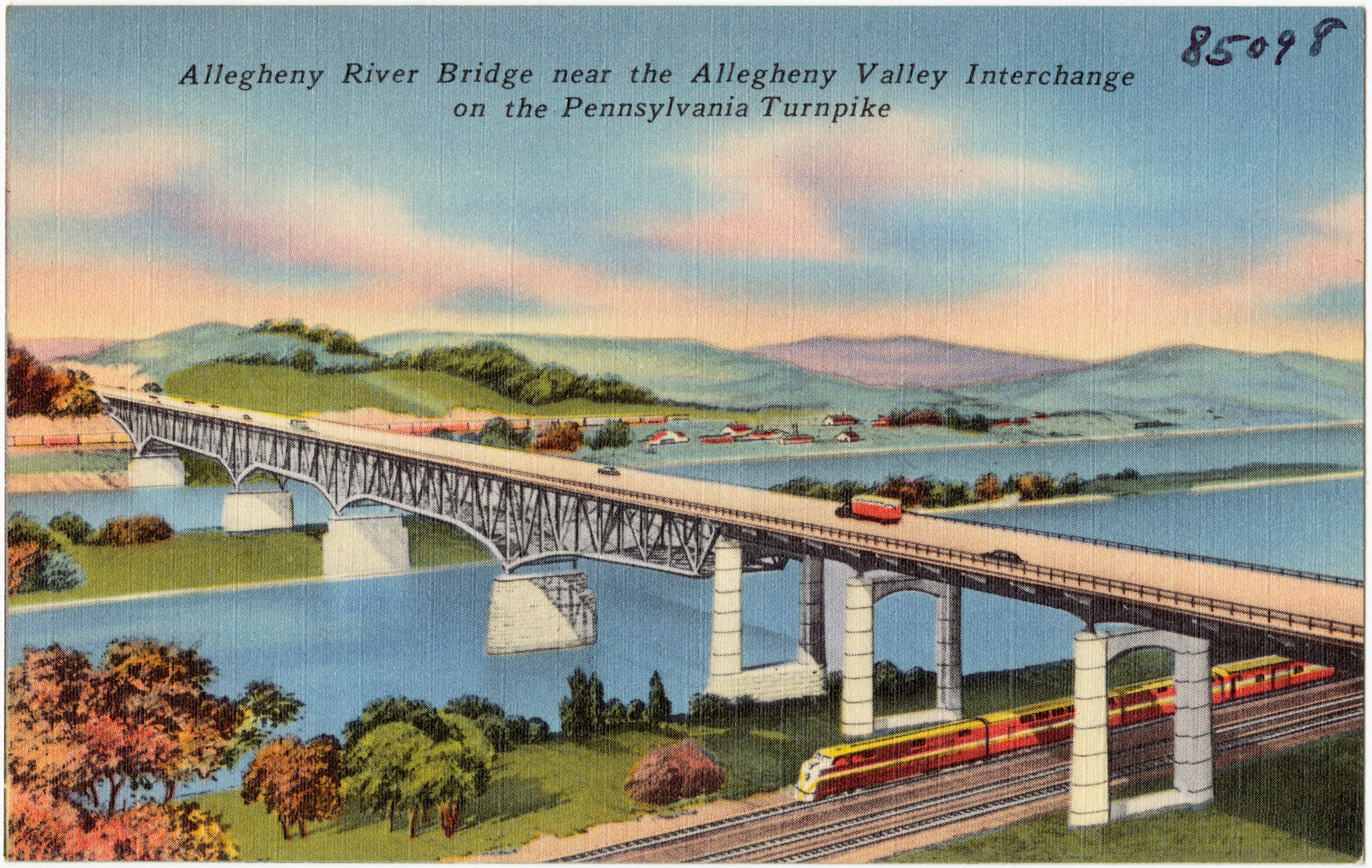 Title: Allegheny River Bridge near the Allegheny Valley Interchange on the Pennsylvania Turnpike Subjects: Roads; Bridges Places: Pennsylvania Notes: Title from item. Extent: 1 print (postcard) : linen texture, color ; 3 1/2 x 5 1/2 in. Accession #: 06_10_017971